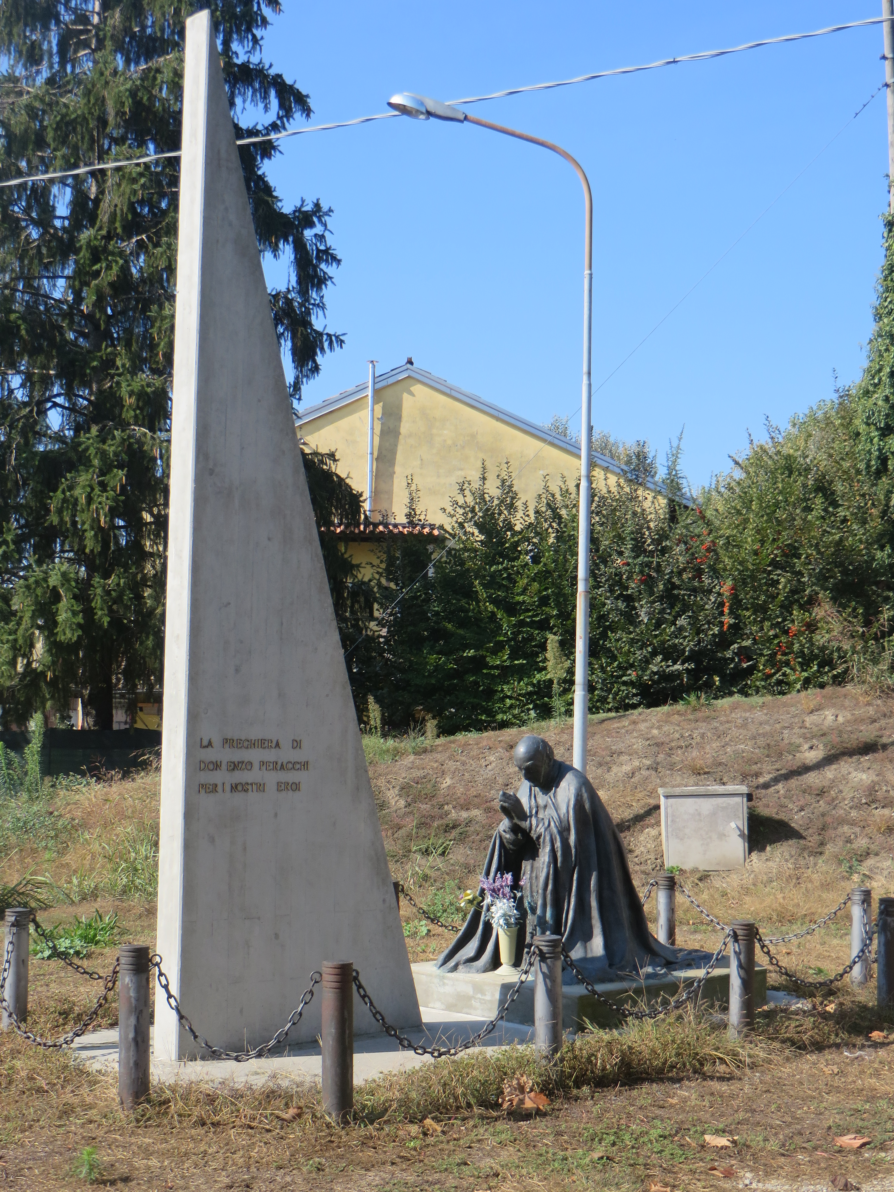 San Secondo Parmense Pizzo Memorial